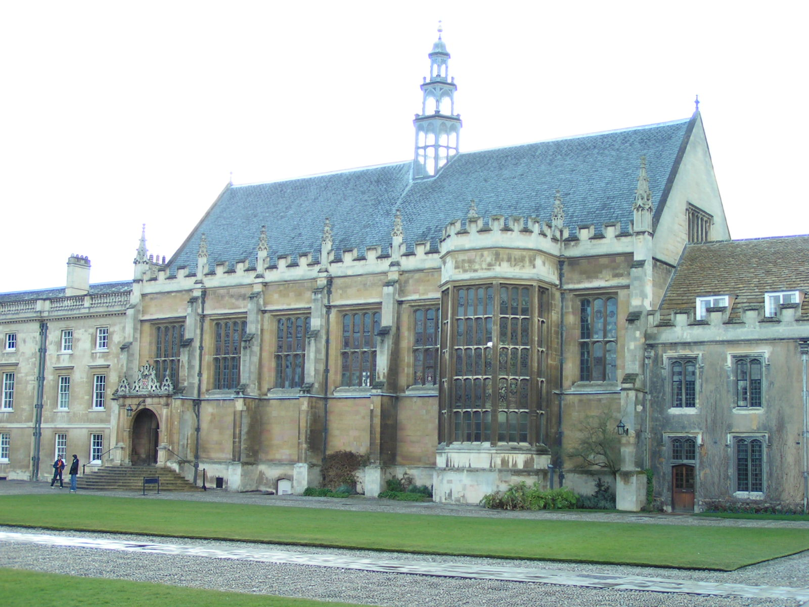 Trinity College in Cambridge, England